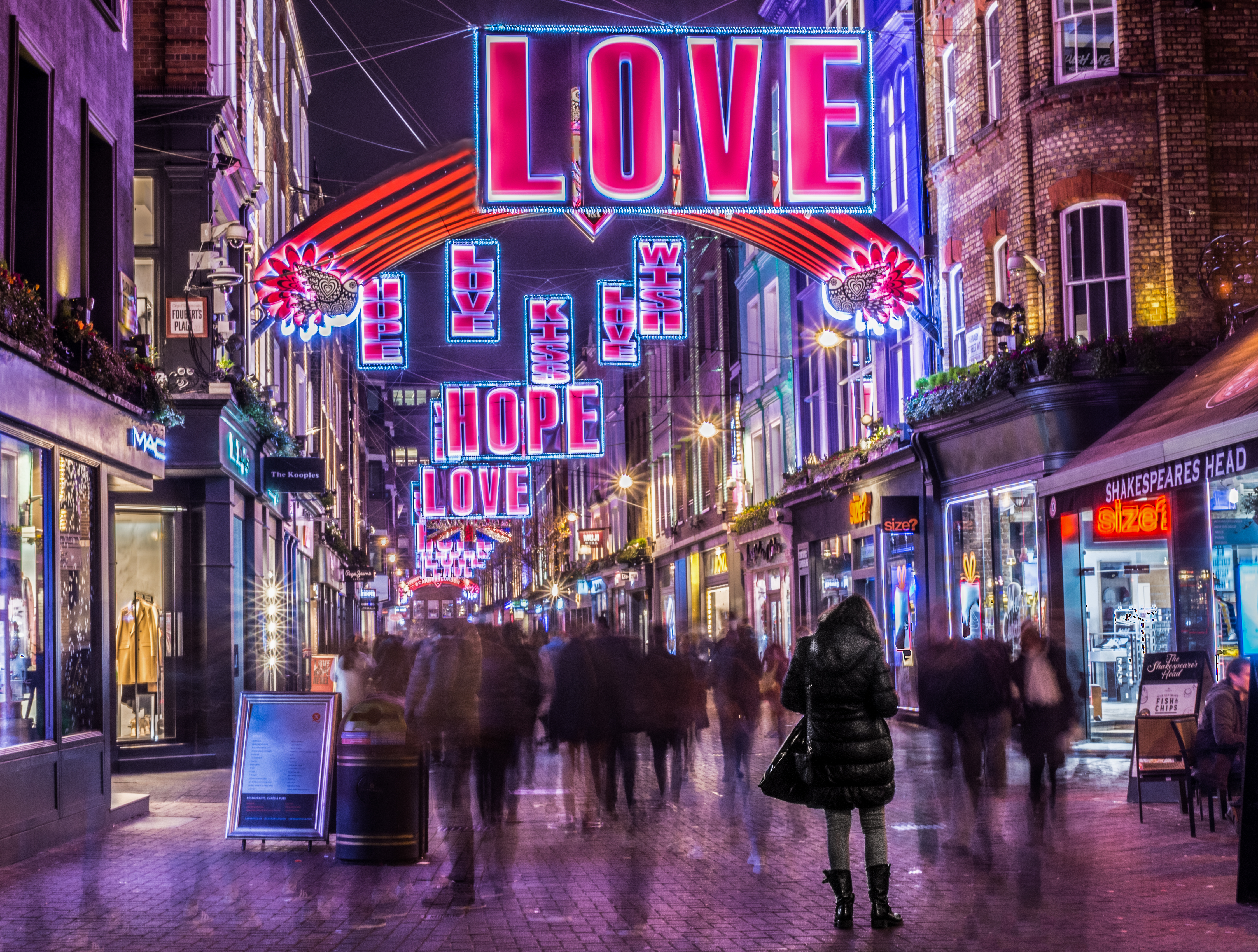 Since the Swinging Sixties, Carnaby Street has been a popular destination for shoppers in central London's Soho district.